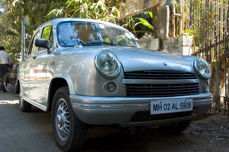 Hindustan Motors Ambassador Avigo